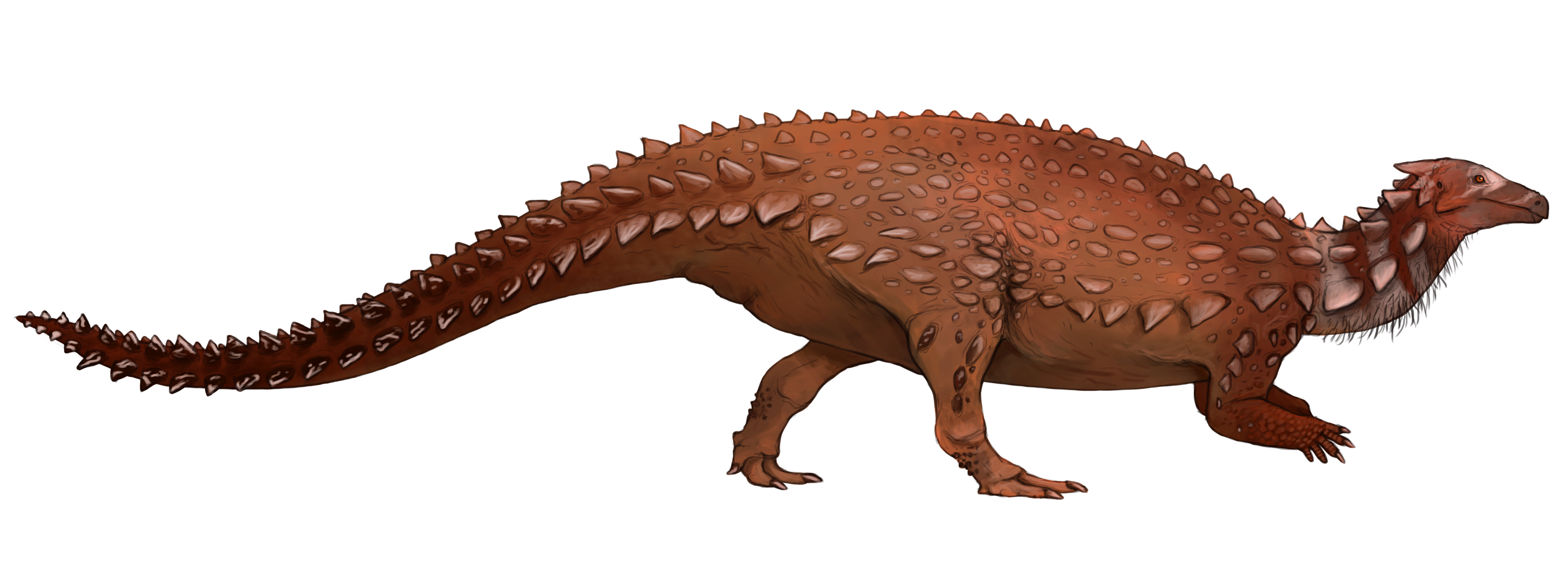 Illustration of the Jurassic thyreophoran Scelidosaurus harrisonii, adopting a bipedal stance as evidenced by the Holy Cross Mountain trackways (Gierliński, Gregard (1999). "Tracks of a large thyreophoran from the Early Jurassic of Poland").